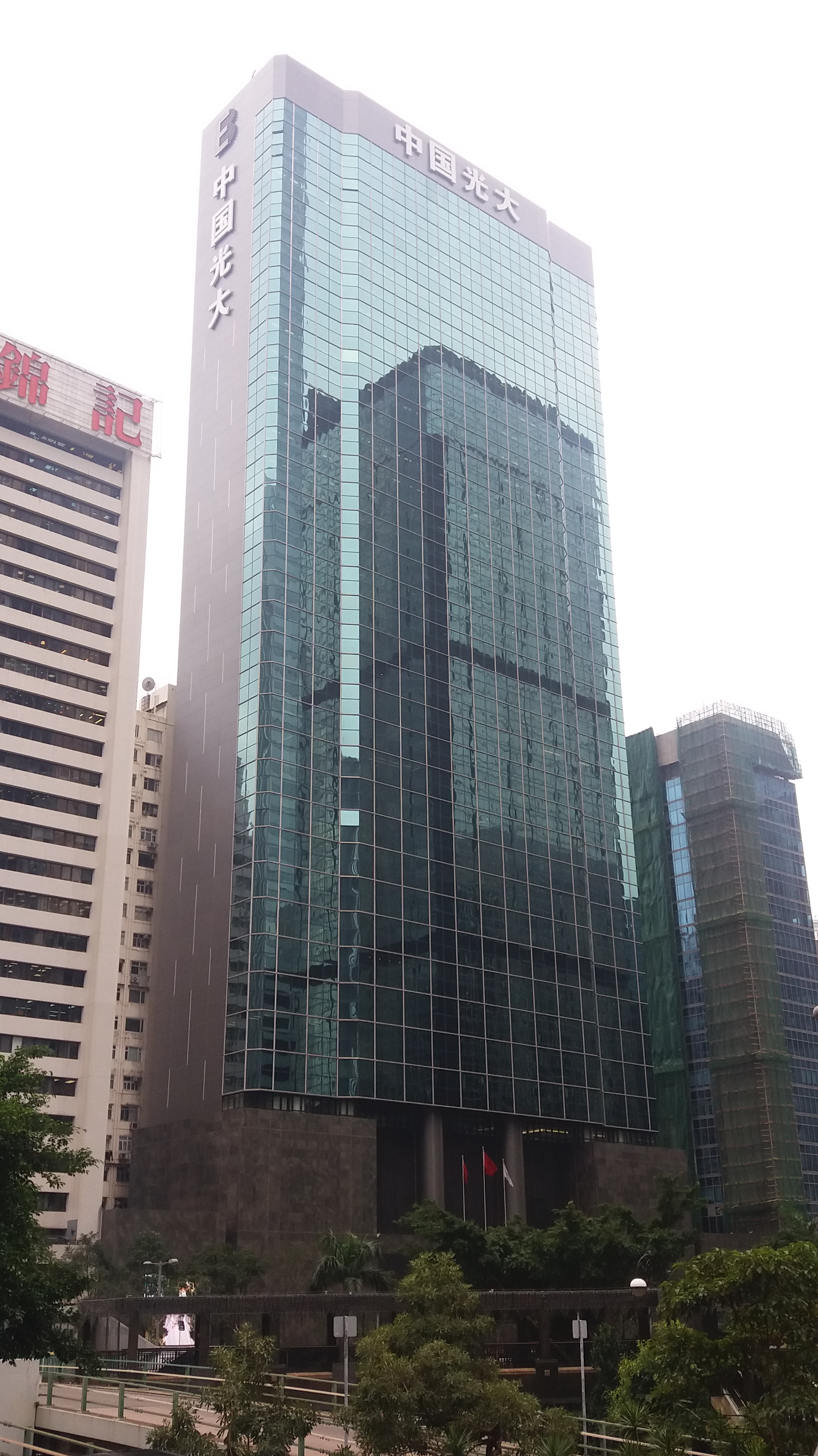 Everbright Centre in Wan Chai, Hong Kong (January 2020)